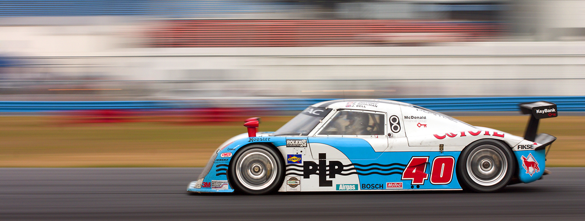 A prototype Pontiac race car accelerates out of the first horseshoe at Daytona International Speedway during the 2006 Rolex 24 Hours at Daytona.